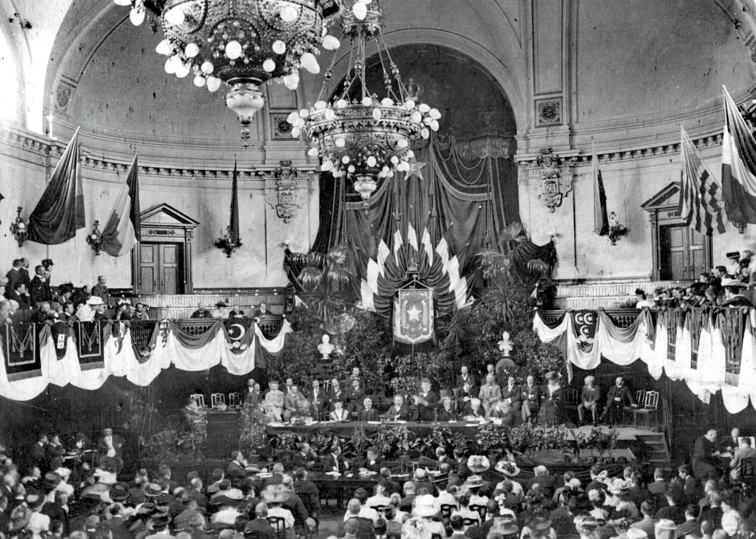 Opening session of World Esperanto Congress, Dresden (Germany) 1908